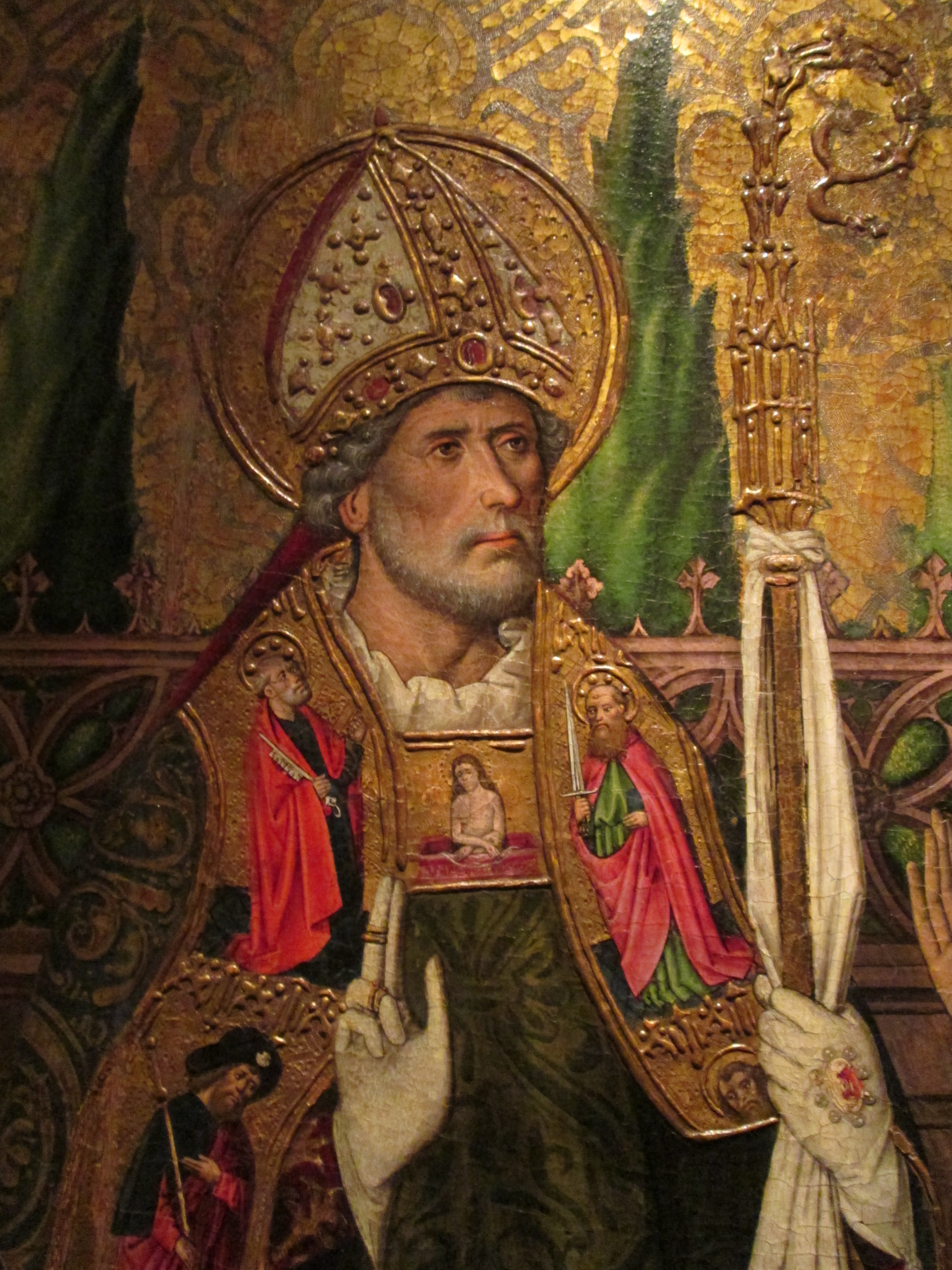 Saint Augustine, detail from Saint Augustine and Saint Lawrence by Tomás Giner, 1458, tempera on panel, Diocesan Museum of Zaragoza, Aragon, Spain.